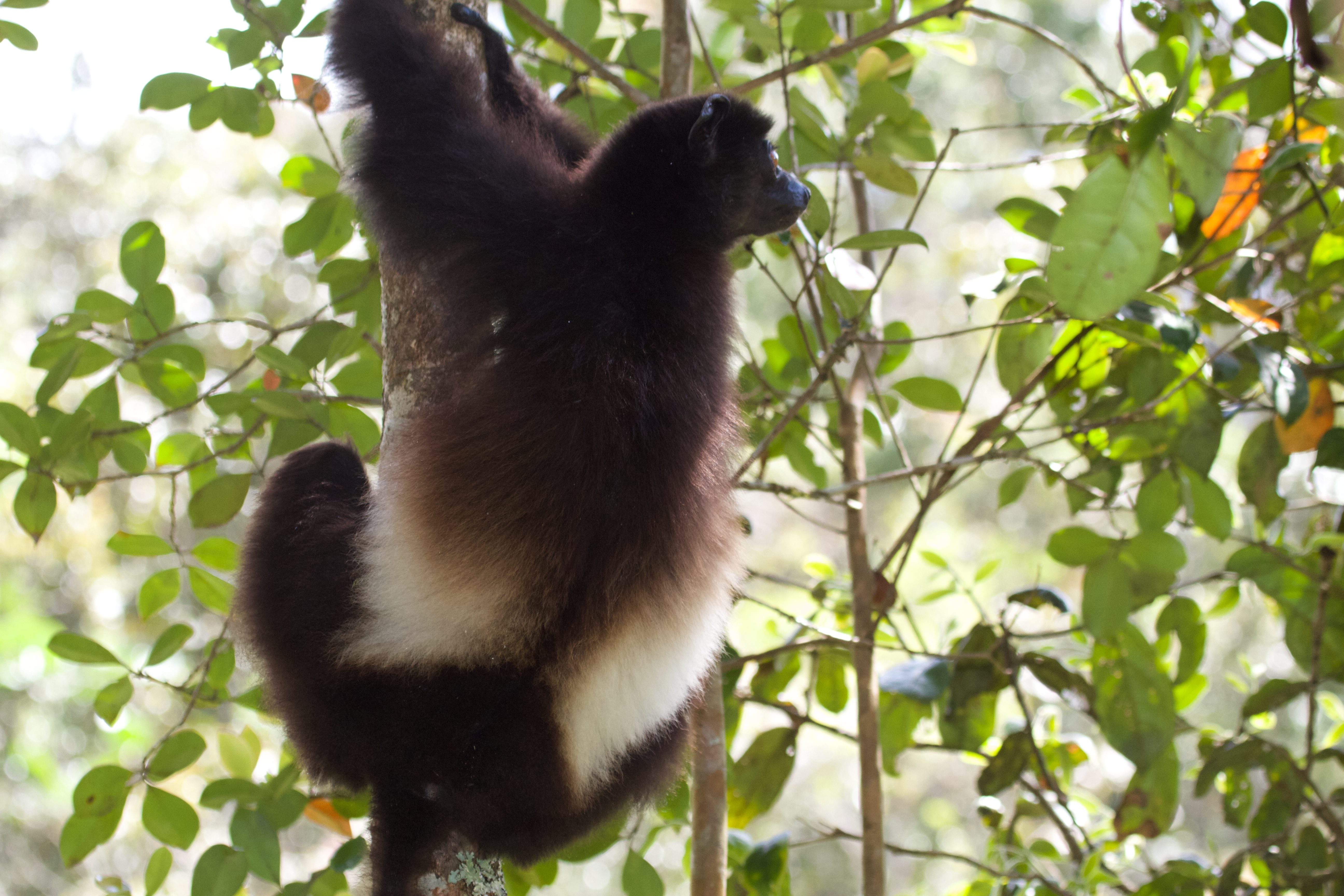 Milne-Edwards' sifaka (Propithecus edwardsi)